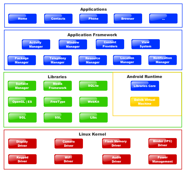 Diagram System architecture Android